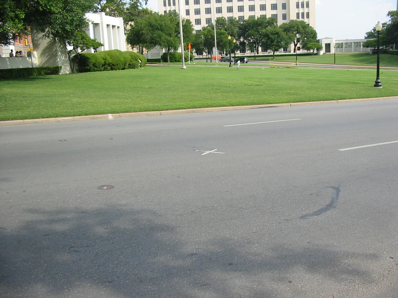 Looking south across Dealey Plaza. Elm Street is in the foreground, with Main Street and Commerce Street in the background. The presidential motorcade traveled down Elm Street from left to right. An X on the street marks the position of JFK during the first effective shot. Abraham Zapruder filmed from a pergola about 55 feet behind this position, while Marie Muchmore filmed from behind the retaining wall at the left, where people are standing in this photo. Orville Nix and Charles Bronson filmed from the far side of Main Street, next to the white pergola in the upper center of the photo.Mary Ann Moorman, standing on the grass, just on the south side of Elm Street, took her infamous Polaroid photo a split-second after the fatal head shot to President Kennedy. (Regarding this particular photo above, she was probably "out of frame," to the far right.) Author: User:Hobbes747 Photo originally posted to Image:Jfk-final-shot.jpg